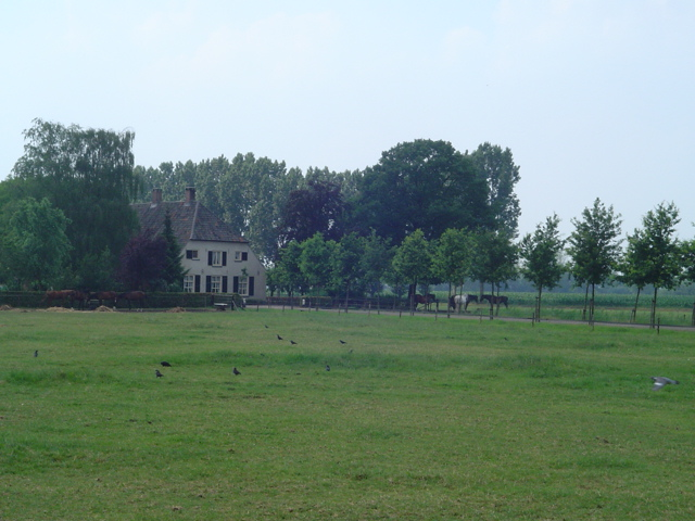 old farmhouse Veghel Mariaheide